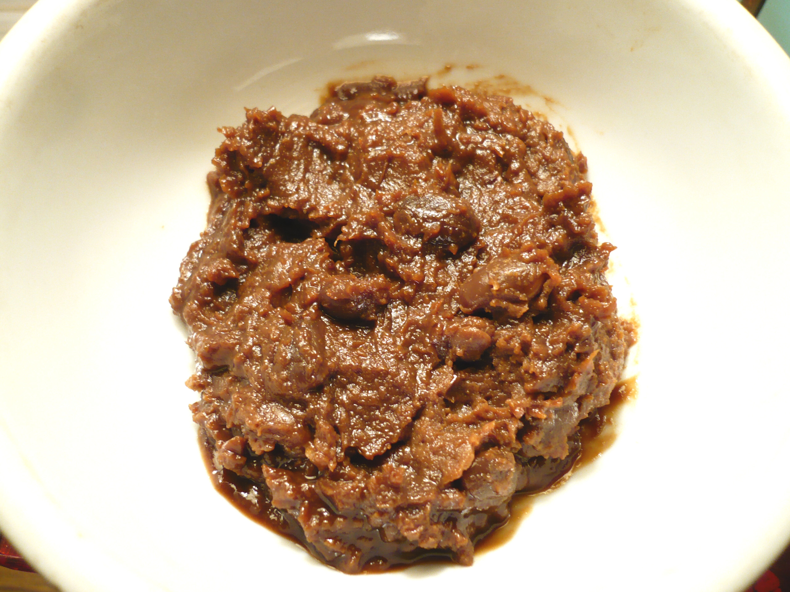 A small bowl of doenjang, a Korean fermented soybean paste. Photo taken in Kent, Ohio with a Panasonic Lumix digital camera (model DMC-LS75). The doenjang in this photo contains whole soybeans.